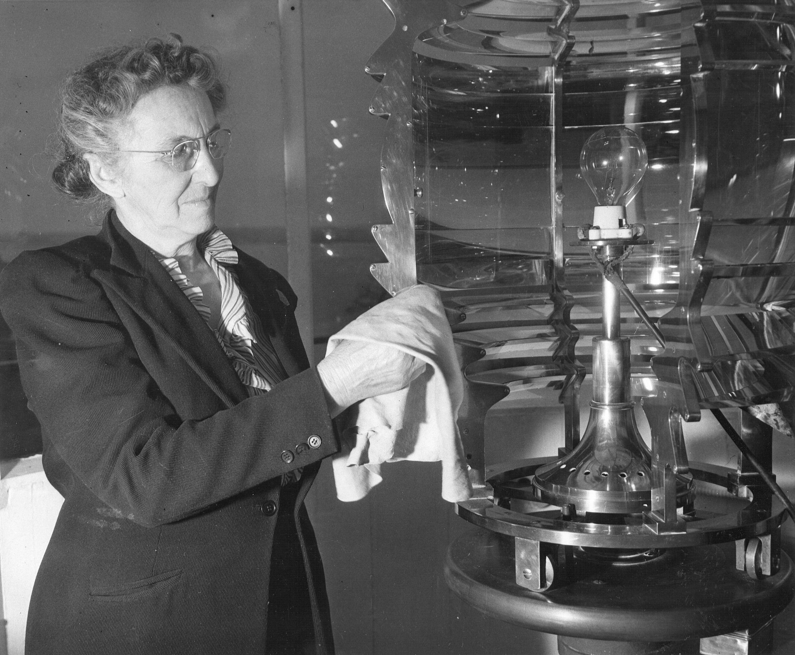 WOMAN LIGHTHOUSE KEEPER SERVES COAST GUARD ON CHESAPEAKE BAY. Polishing the great lens in the Turkey Point, Maryland, Light is a weekly task for Mrs. Fanny [sic] May Salter, the only woman lighthouse keeper in the U.S. Coast Guard service. For 43 years, Mrs. Salter's efforts have been devoted to keeping that Chesapeake Bay Beacon burning. She assisted her husband for 23 years and after his death in 1925 was appointed permanent keeper by the late President Coolidge. Turkey Point Light is high up [the] Chesapeake Bay near Baltimore.